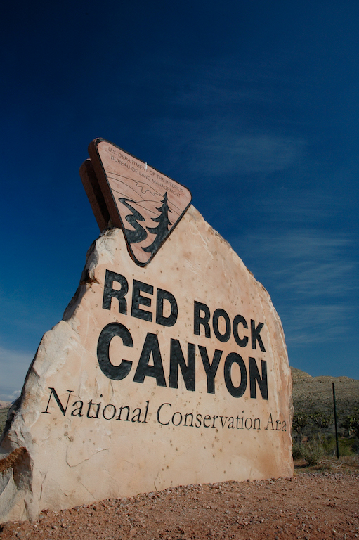 Sign at the Red Rock Canyon park entrance in southern Nevada.